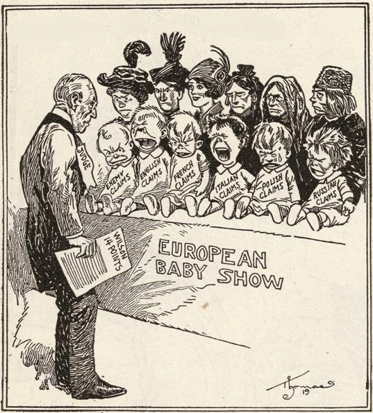 Wilson's Fourteen Points: European Baby Show. The enfants presented to Woodrow Wilson are labeled to represent the various claims of the English, French, Italians, Polish, Russians, and even the enemy. Political cartoon, 1919.